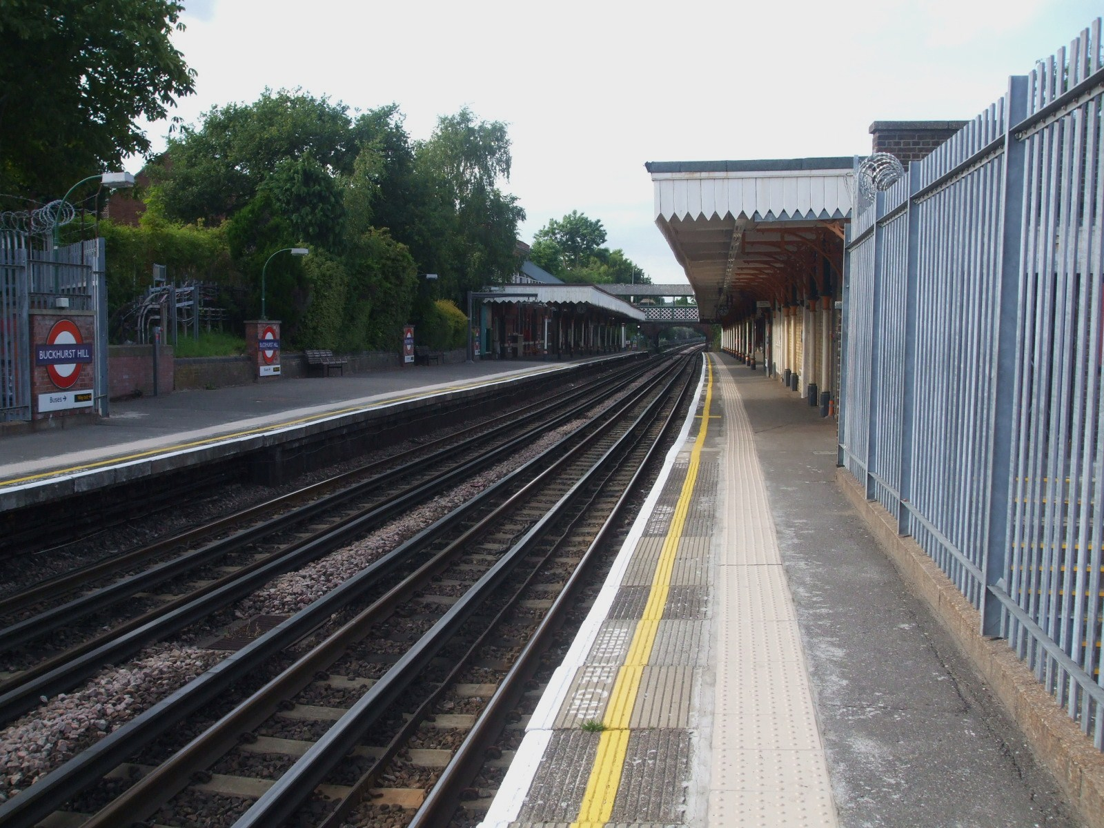 Buckhurst Hill tube station looking eastbound (actually north here)